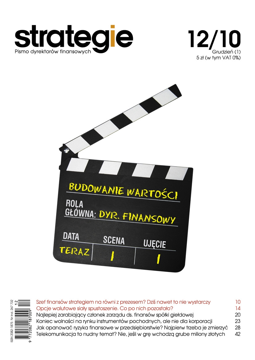 Title cover 12/2010 of Polish b2b magazine: Strategie